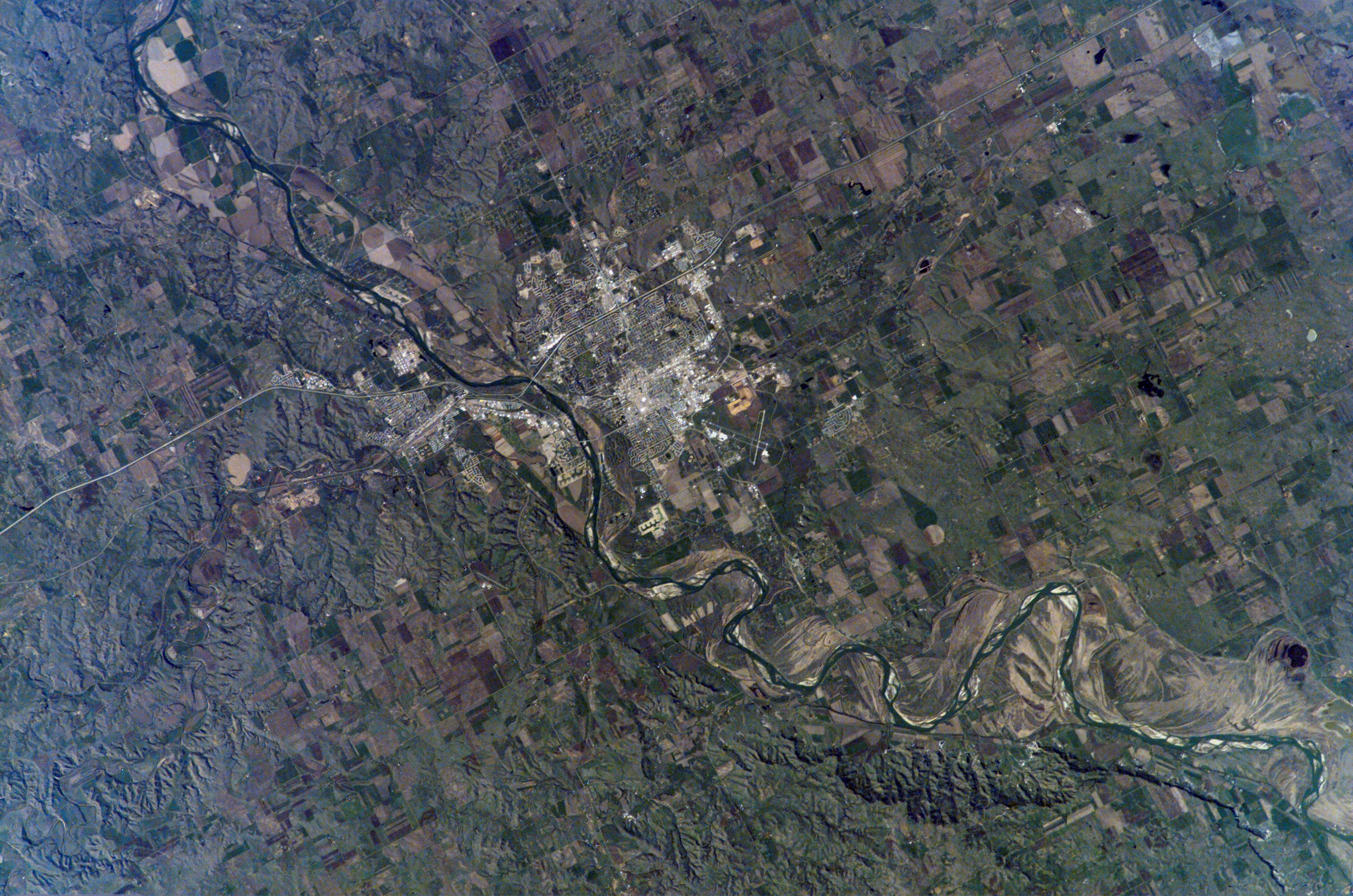 Astronaut photograph of Bismarck, North Dakota taken from the International Space Station (ISS).